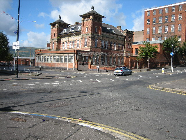 Whitehall Tobacco Works, Linfield Road, Belfast. Admin block in front, part of factory to the right. The closure of the plant in August 2005 brought to an end an enterprise started by the brothers Murray in 1810.